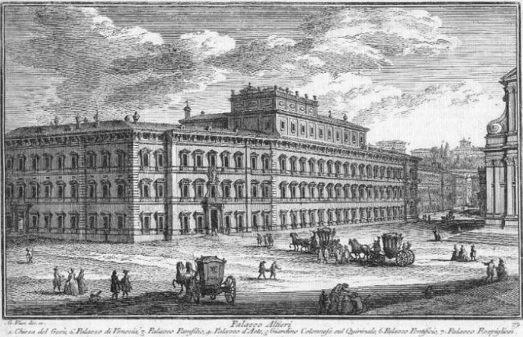 1) Chiesa del Gesù; 2) Palazzo Venezia; 3) Palazzo Panfilio; 4) Palazzo d'Aste; 5) Giardino Colonna; 6) Palazzo del Quirinale; 7) Palazzo Rospigliosi.